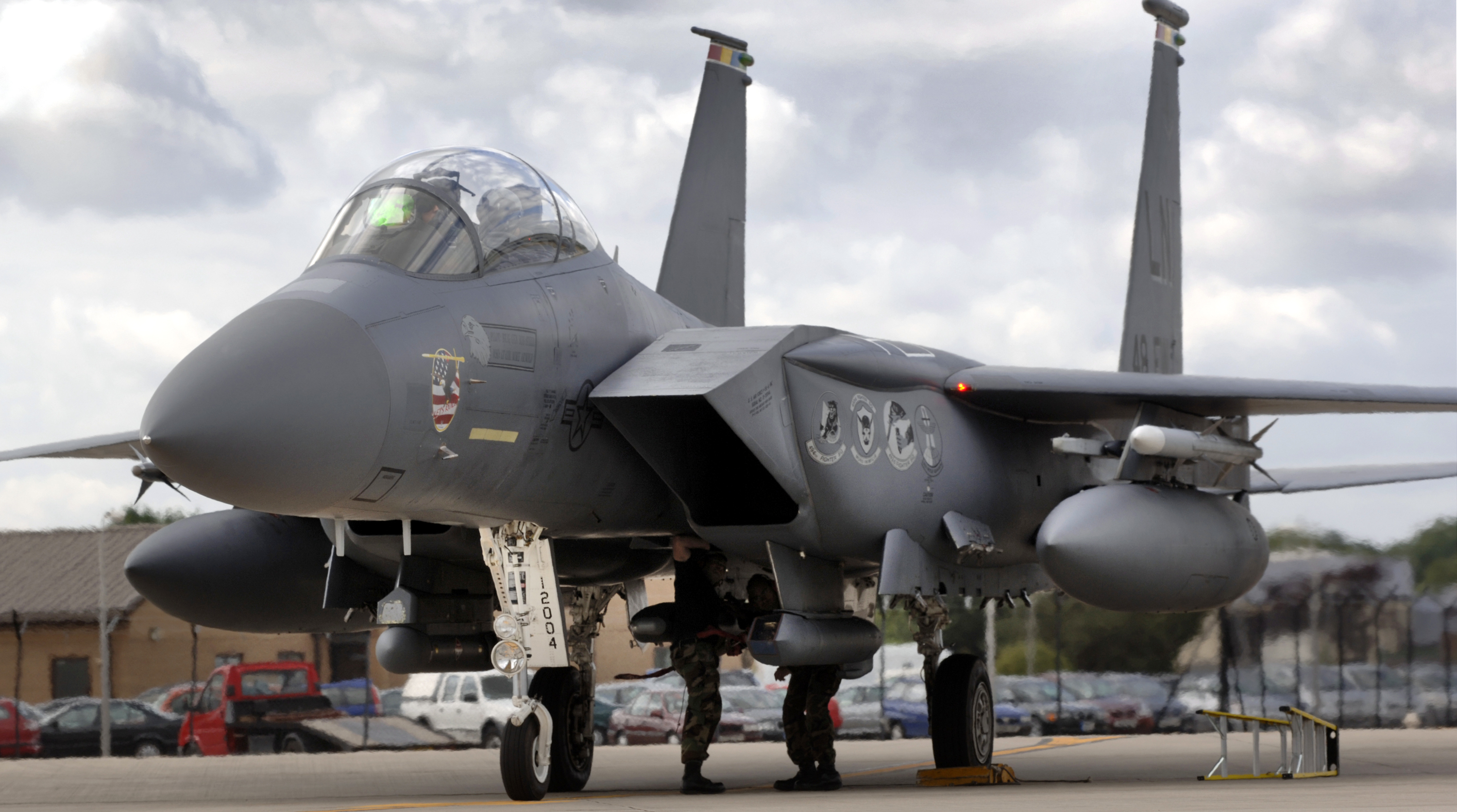 Airman 1st Class James Willett (left) and Staff Sgt. David Cruz disarm an F-15E Strike Eagle at Royal Air Force Base Lakenheath, England, on Aug. 1. The 494th Fighter Squadron jet had just returned from a training mission. The Airmen are weapons specialists with the 48th Aircraft Maintenance Squadron.